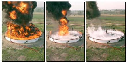 Three stages of the FoamFatale fire extinguishment